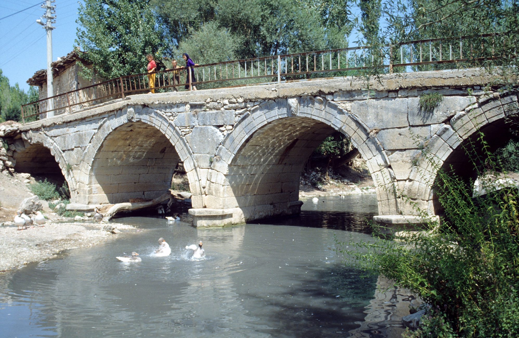 The Roman Penkalas Bridge in Aizanoi, Asia Minor (present-day Cavdarhisar in Turkey)